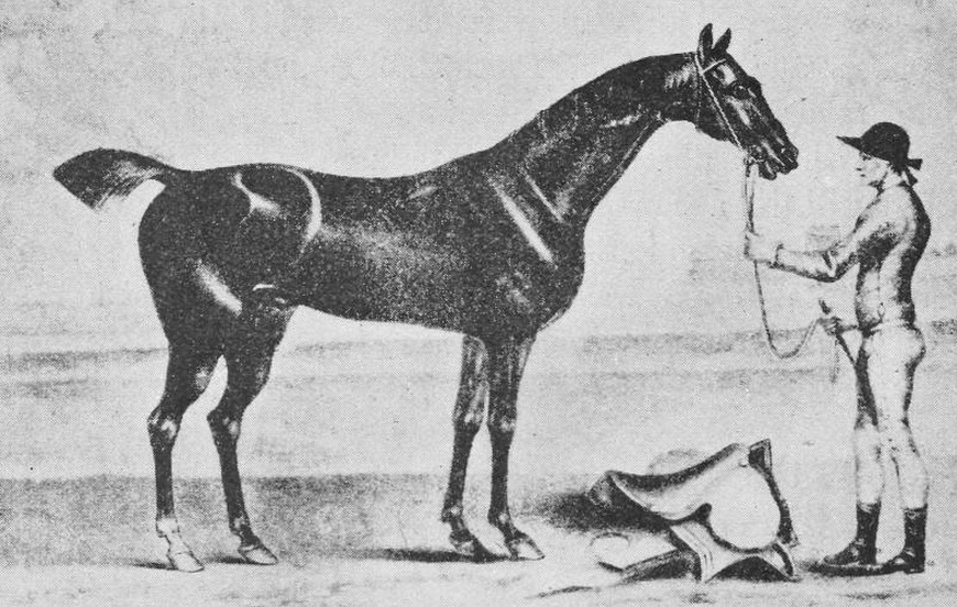 Bay Bolton